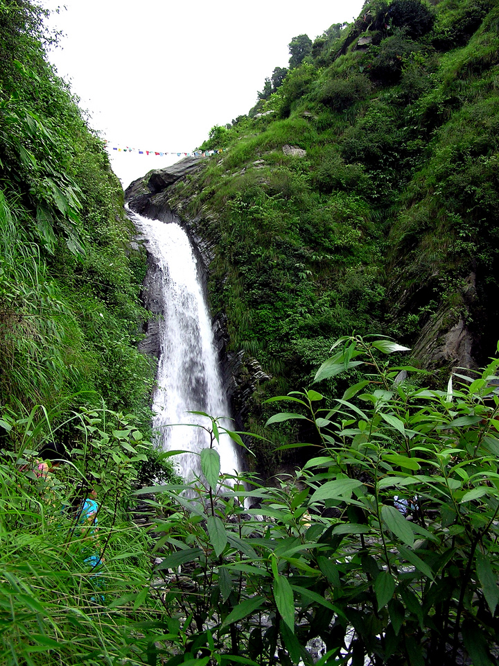 Bhagsu's water fall, McLeod Ganj, Dharamsala.